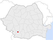 Location of Filiași in Romania.